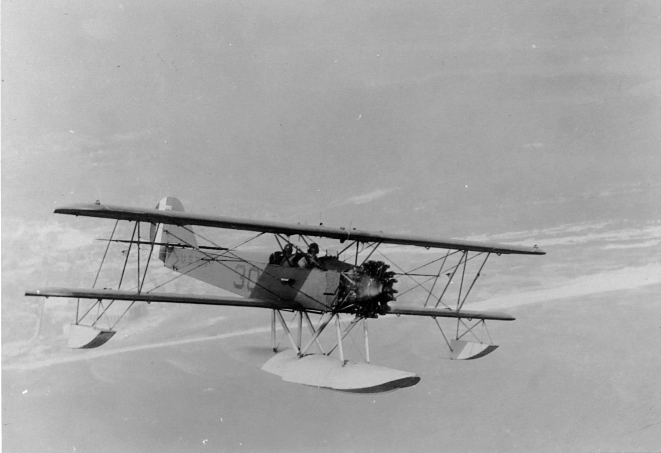 A U.S. Navy Consolidated NY seaplane in flight near Naval Air Station Pensacola, Florida (USA). Ordered by the Navy during the mid-1920s, the NY was a mainstay in the training of interwar U.S. naval aviators.